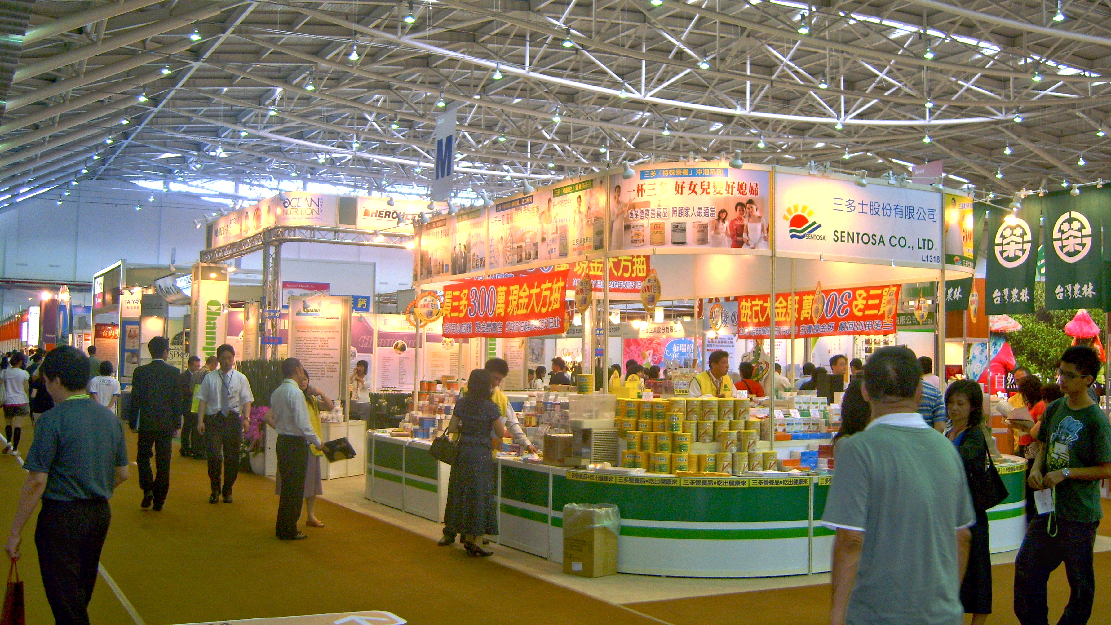 2008 Food Taipei: Organic Food Area.